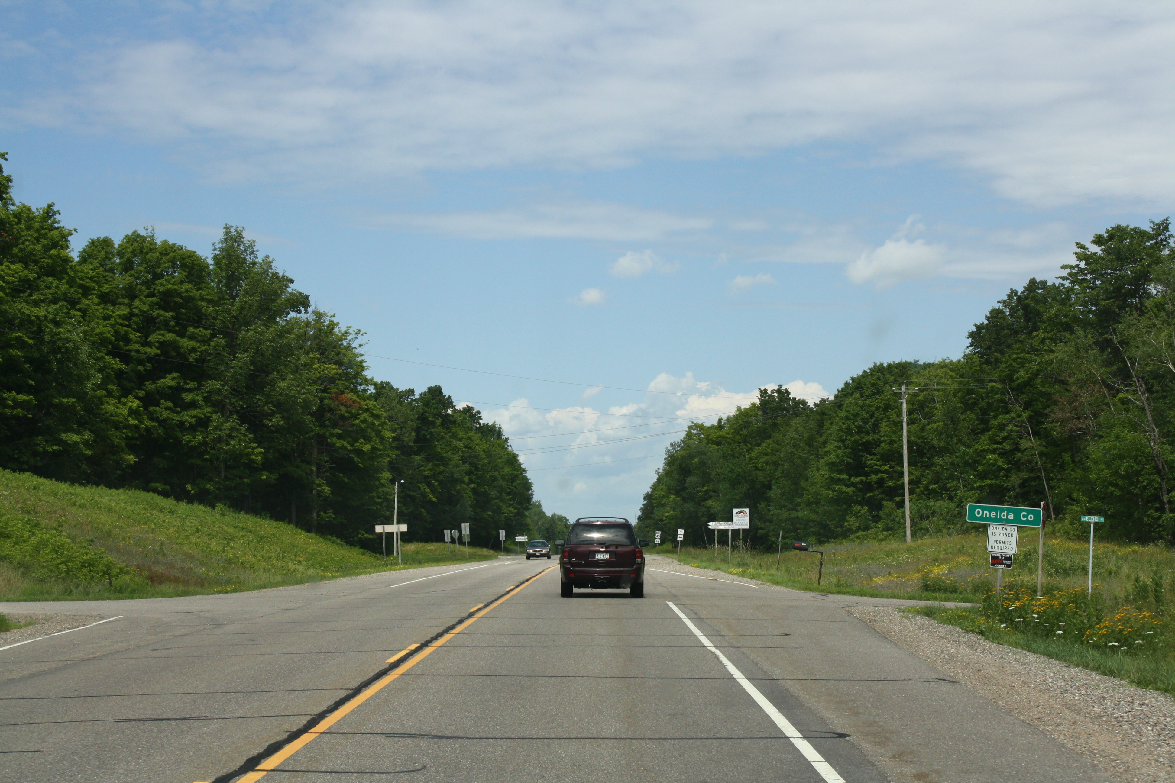 Looking north at the county welcome sign for Oneida County, Wisconsin on U.S. Route 45.